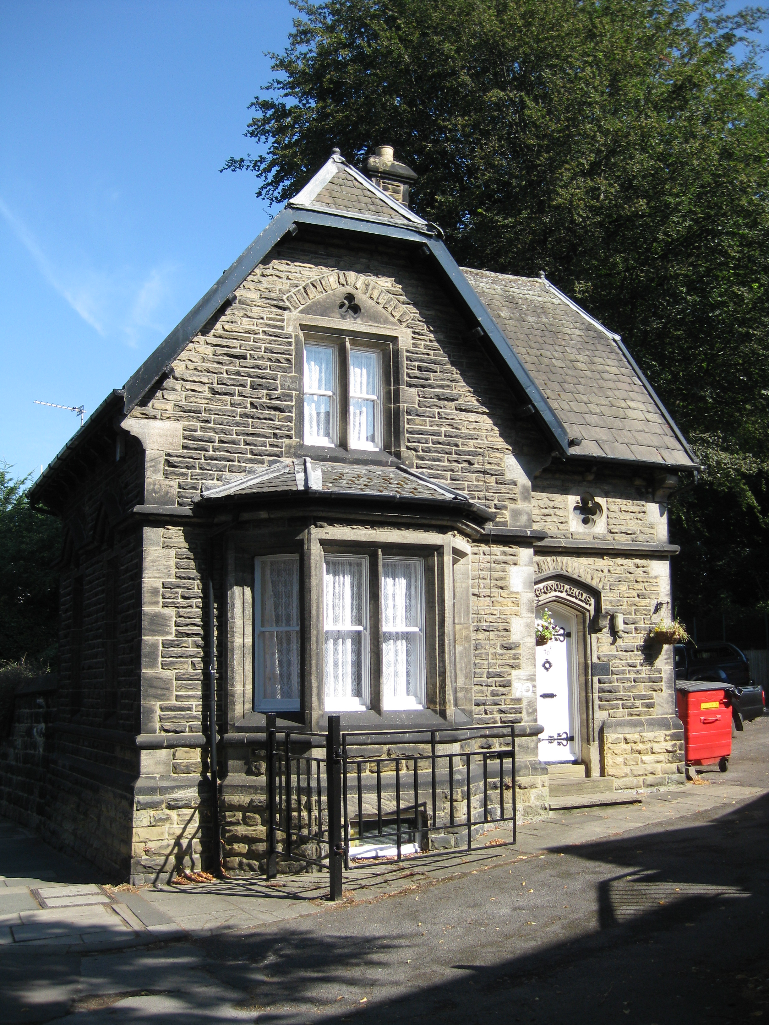 Number 70, Headingley Lane, Leeds LS6 2DJ. The former lodge to Headingley Castle.